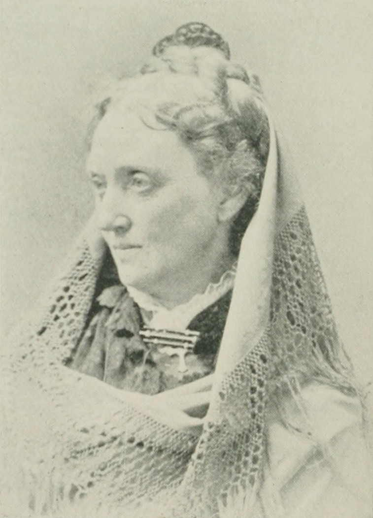 one of the Women of the Century